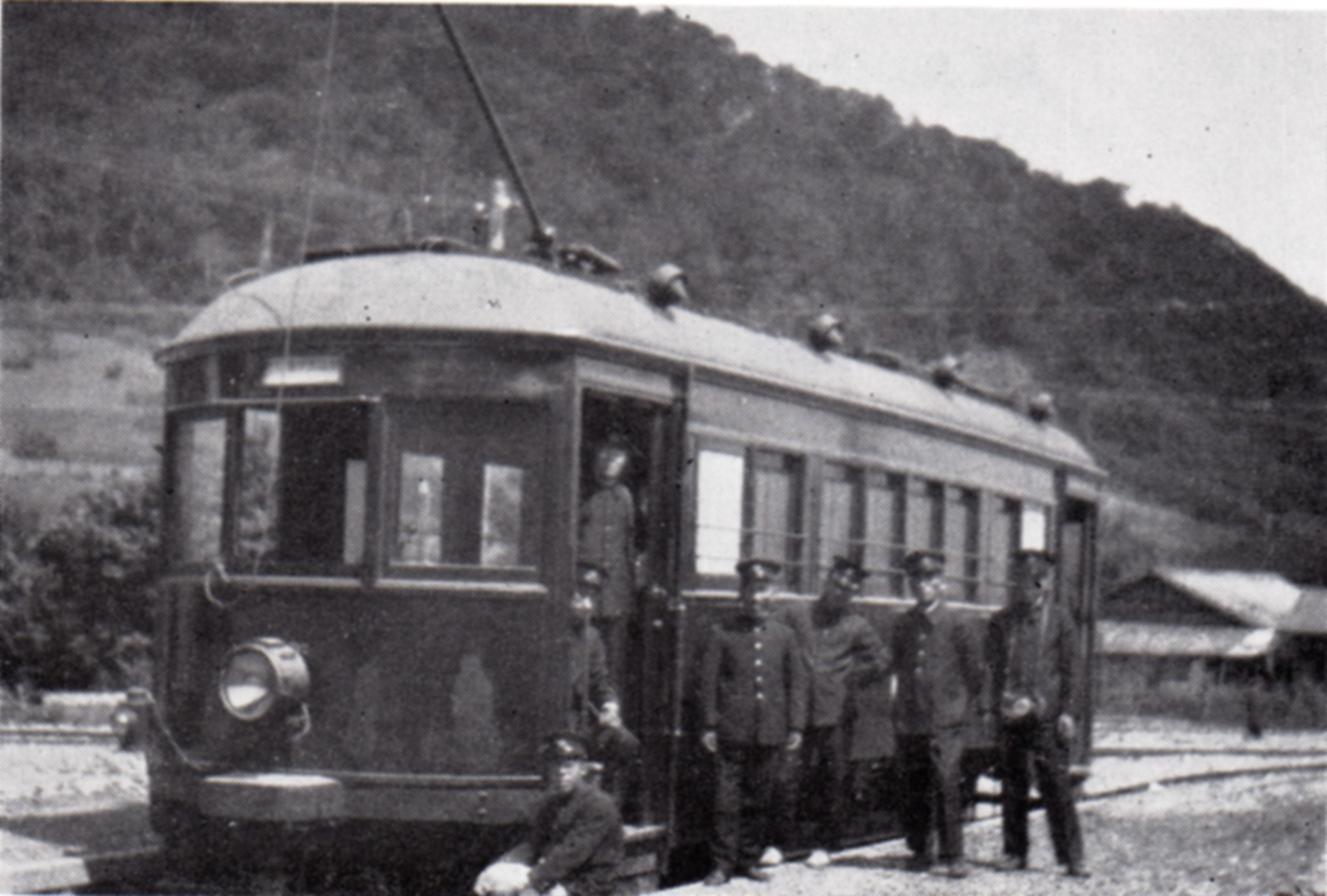 Sapporo Onsen Electric Tramway type De-1 type EMU at Onsenshita tramstop